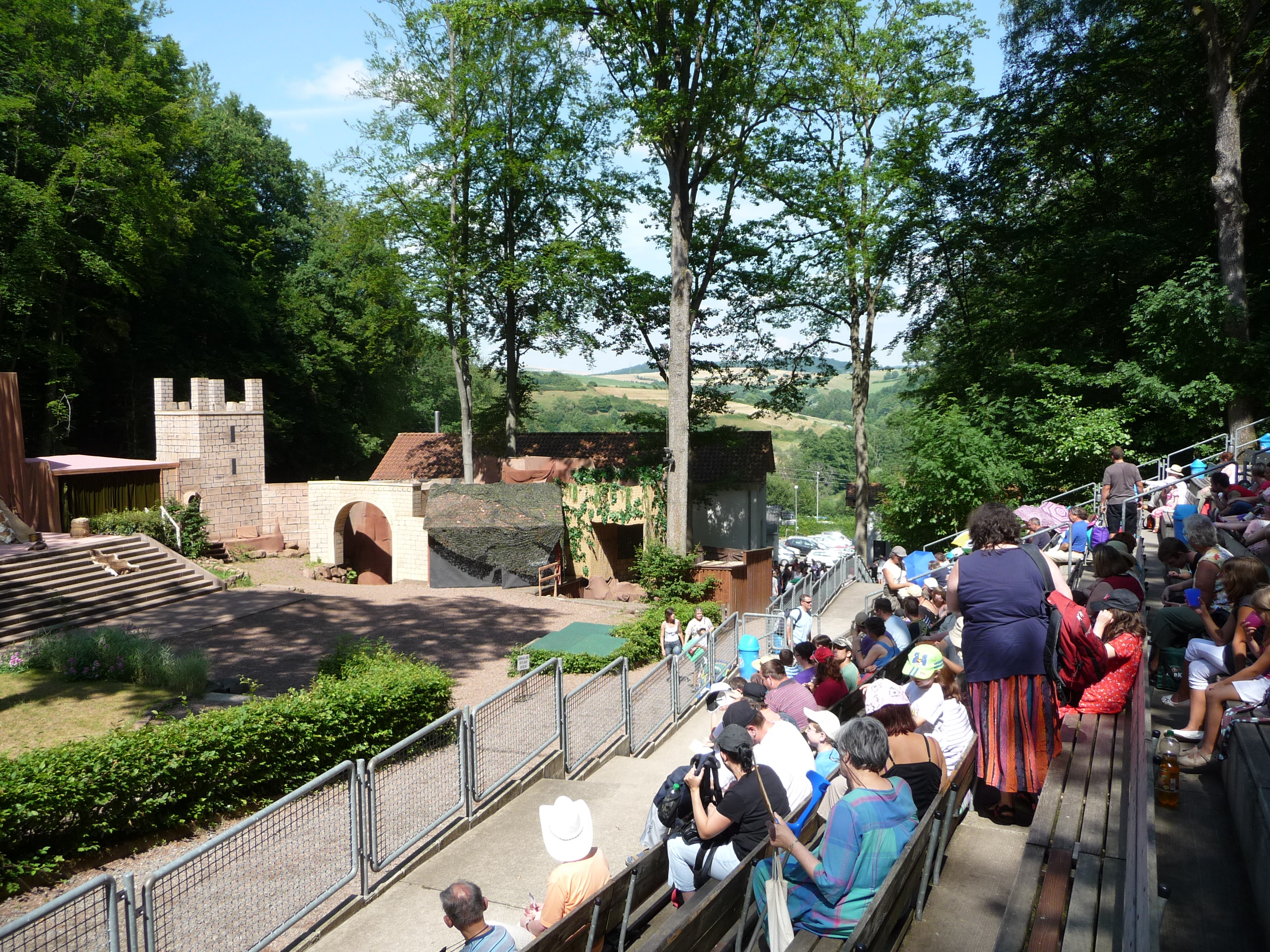 Katzweiler